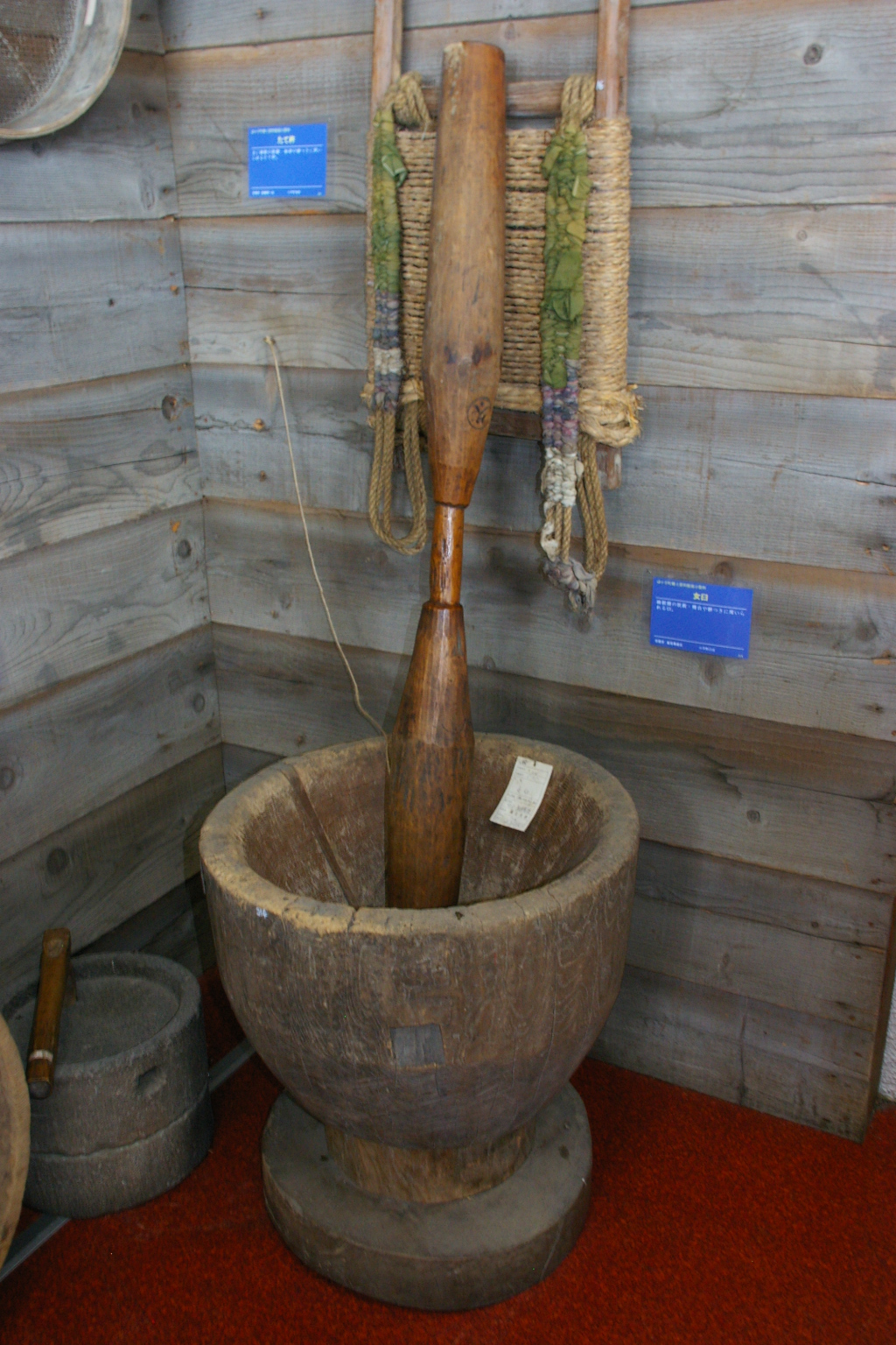 Mortar and pestle displayed at the Obira Town Local History Museum, Hokkaido, Japan